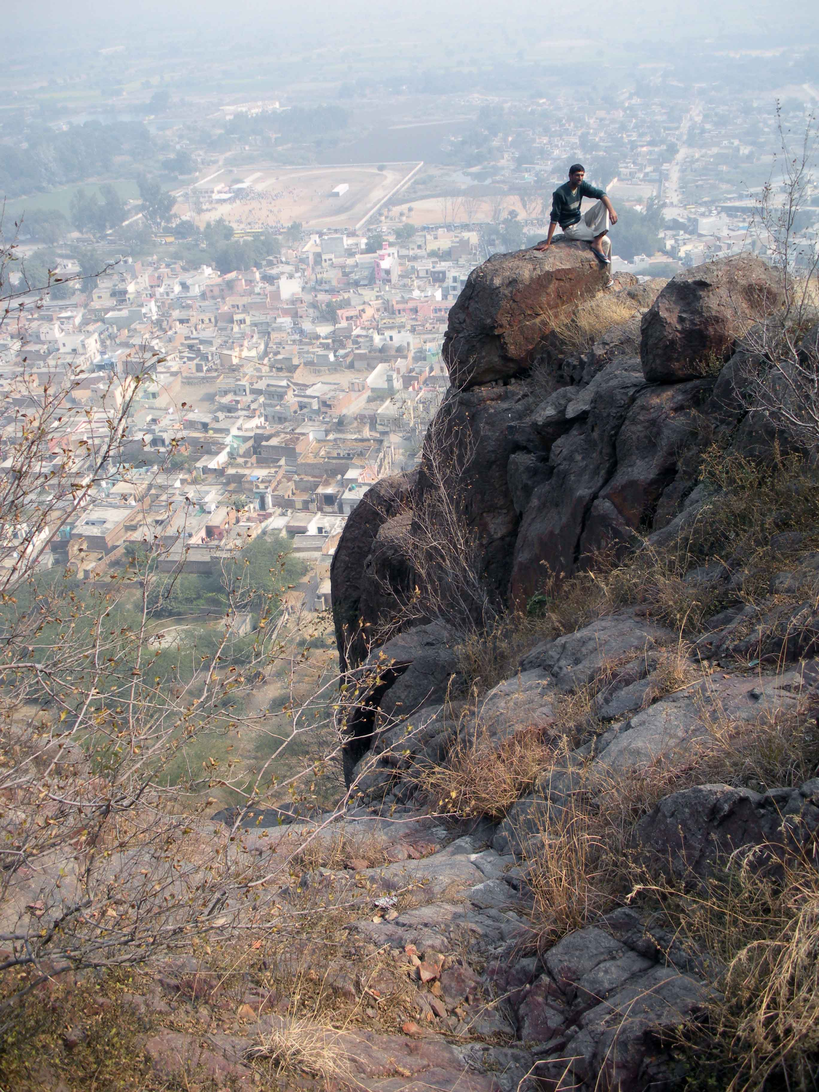 The mountain at Tosham, show the site of the ancient monastery and water cascade.